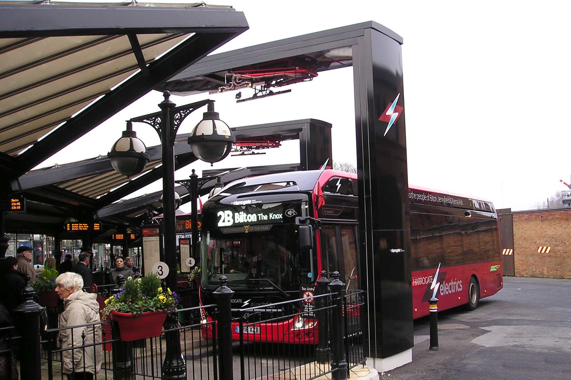 Bus, Volvo, all electric vehicle.